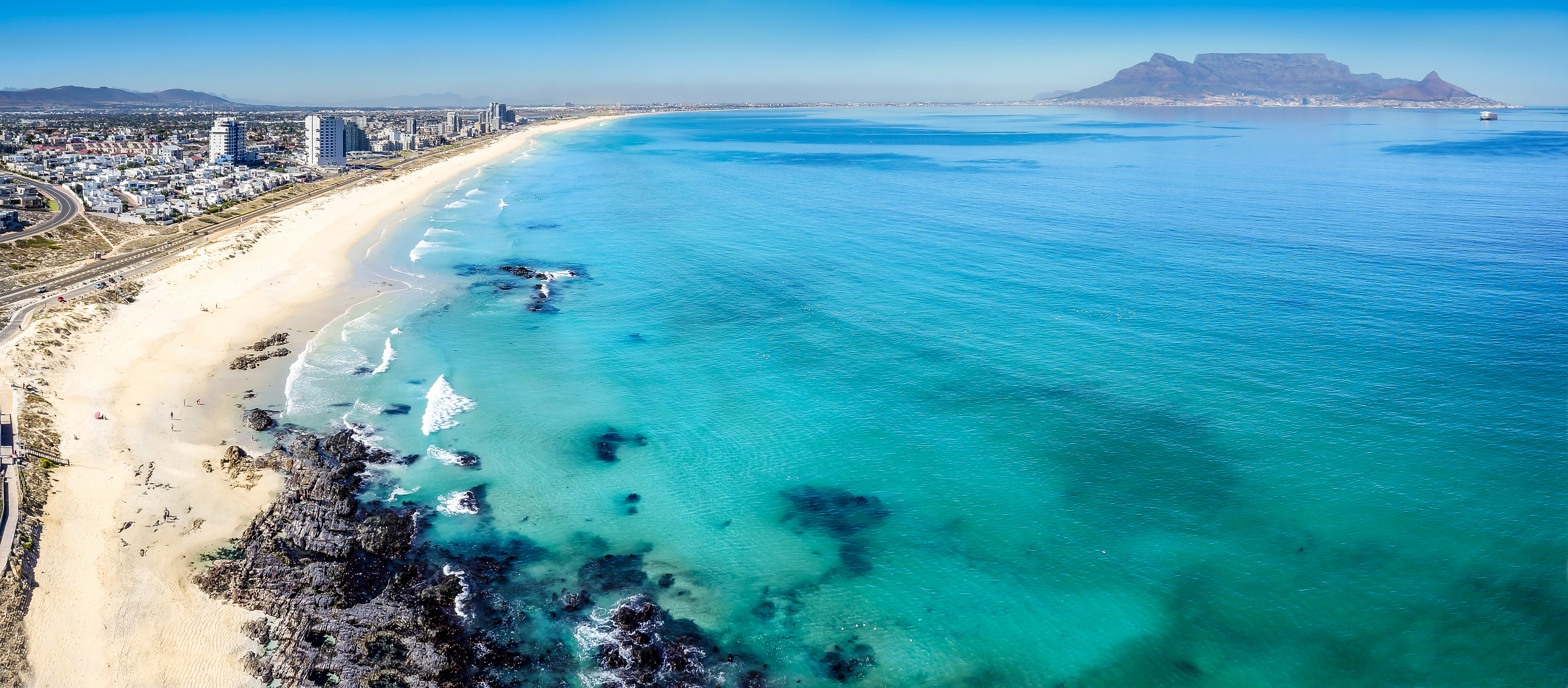 Blouberg beach lies on the west coast of Table Bay few minute drive from Cape Town city CBD. Bloubergstrand beach gives a wonderful view of the city, and it is from here that the perfect postcard pictures of Cape Town with Table Mountain in the background.